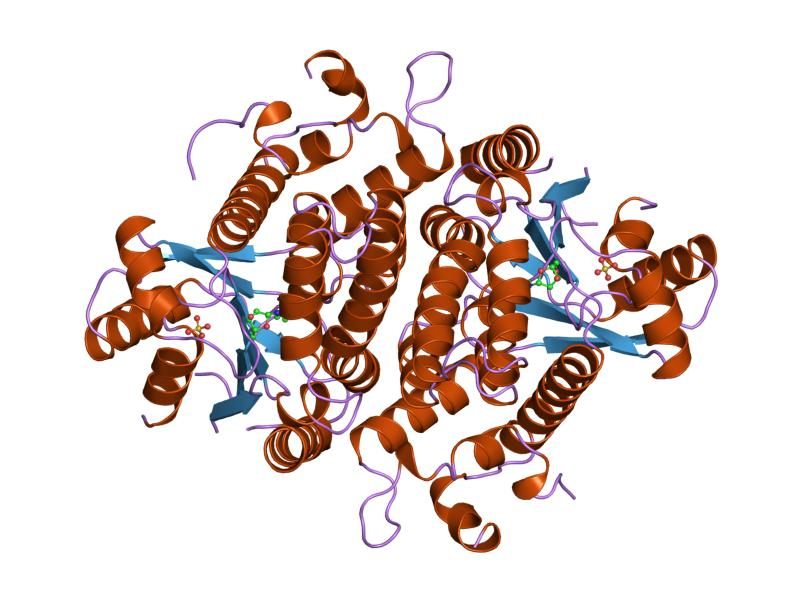 Cartoon representation of the molecular structure of protein registered with 1kim code.